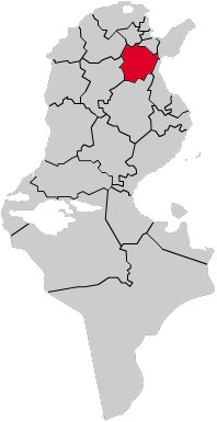 Map of Tunisia with highlighted Zaghouan Governorate